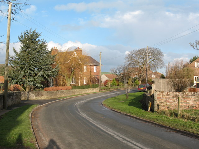 Norton-le-Clay, N. Yorks.